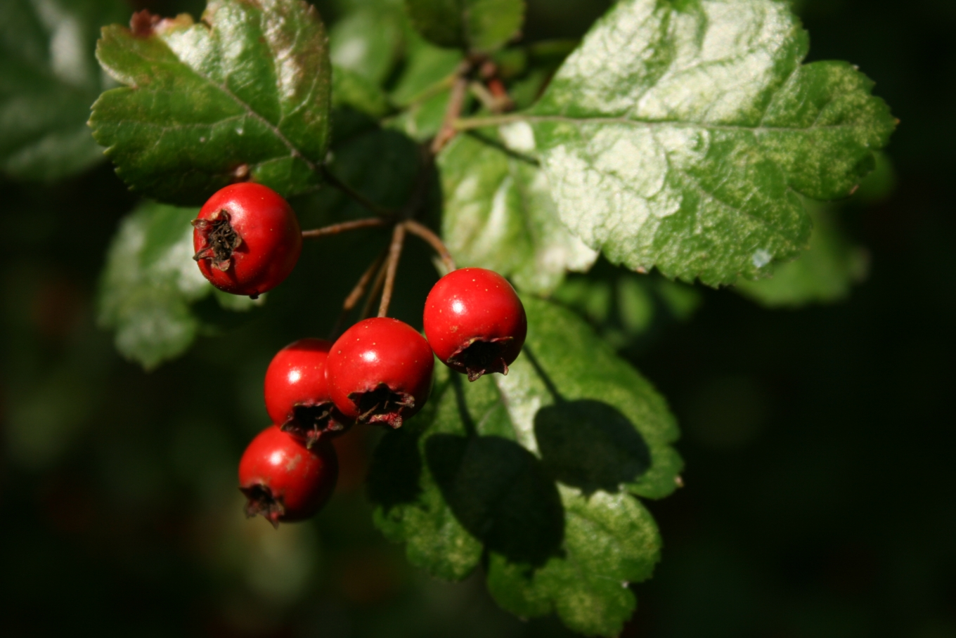 Cratagus laevigata: Berries.